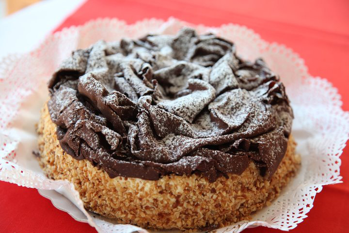 Torta Tartufata di Vercelli